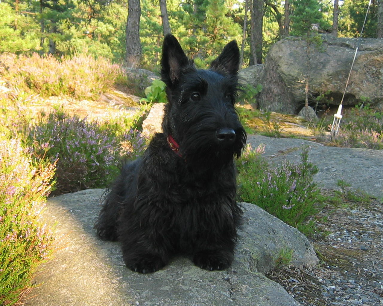 Scottish Terrier, Otto the dog 16months